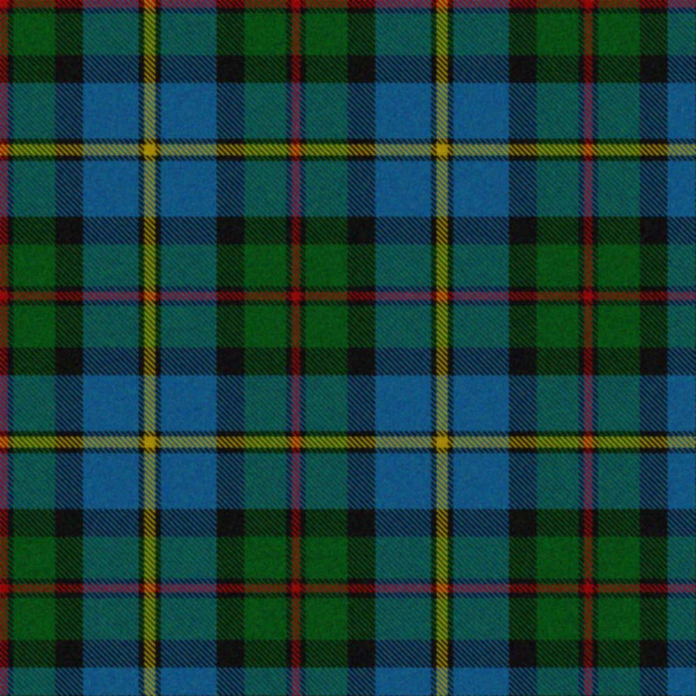 MacLeod tartan. This tartan appears in the early collections of Logan (1831) and Smibert (1850). Modern thread count: r6 k4 g30 k20 b40 k4 y4. (source: Stewart, Donald C, The Setts of the Scottish Tartans, p.83-84)